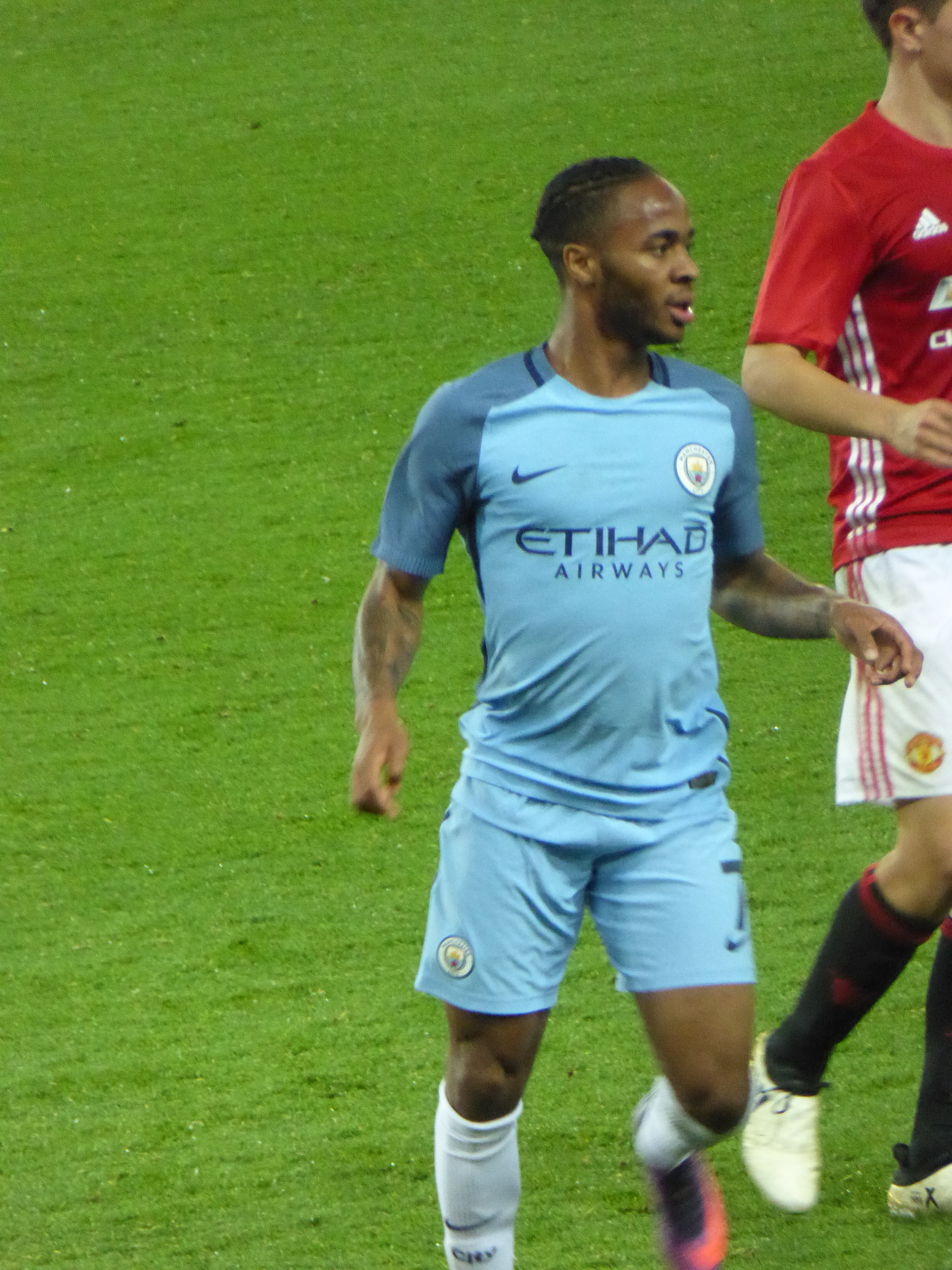 Manchester United v Manchester City (1-0), EFL Cup, Old Trafford, Manchester, Greater Manchester, England, October 2016